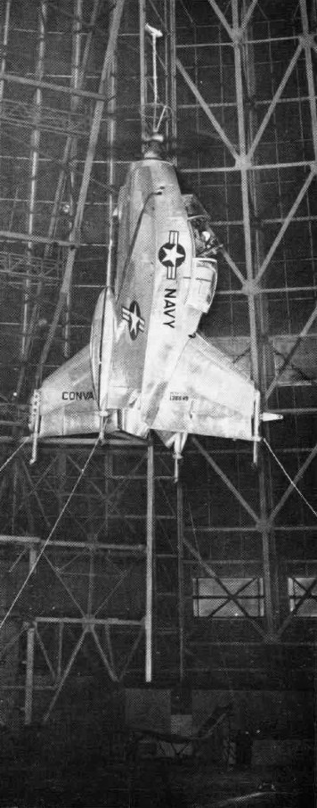 The Convair XFY-1 experimental STOL aircraft hovering in the large (old airship) hangar at the U.S. Naval Air Station Moffett Field, California (USA), in 1954.